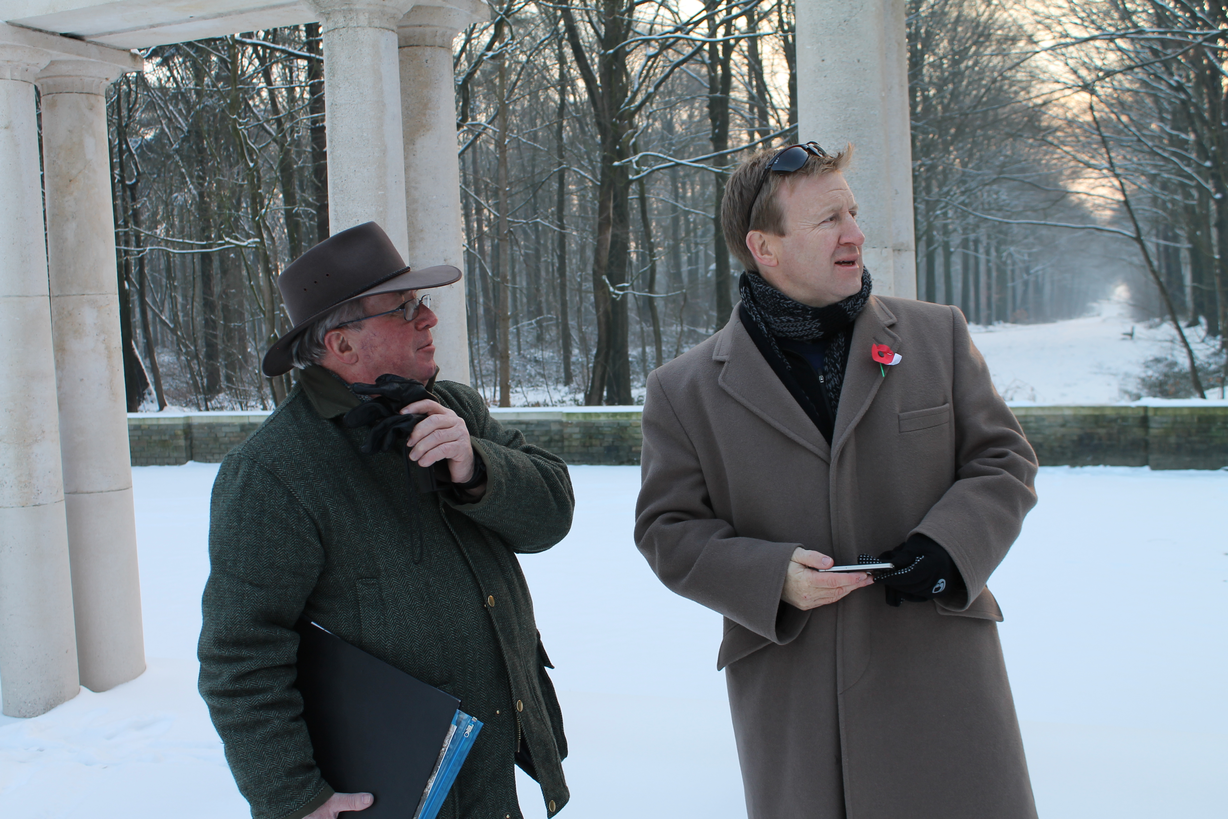 New Zealand Minister of Defence Jonathon Coleman (right) with military historian Christopher Pugsley (left) at the Buttes New British Cemetery New Zealand Memorial, Belgium